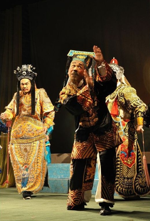 Chou in Teochew opera